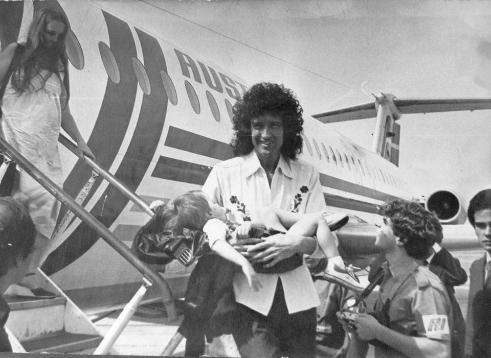 Brian May at the Mar del Plata Airport when he arrived with Queen for a series of concerts in Argentina.